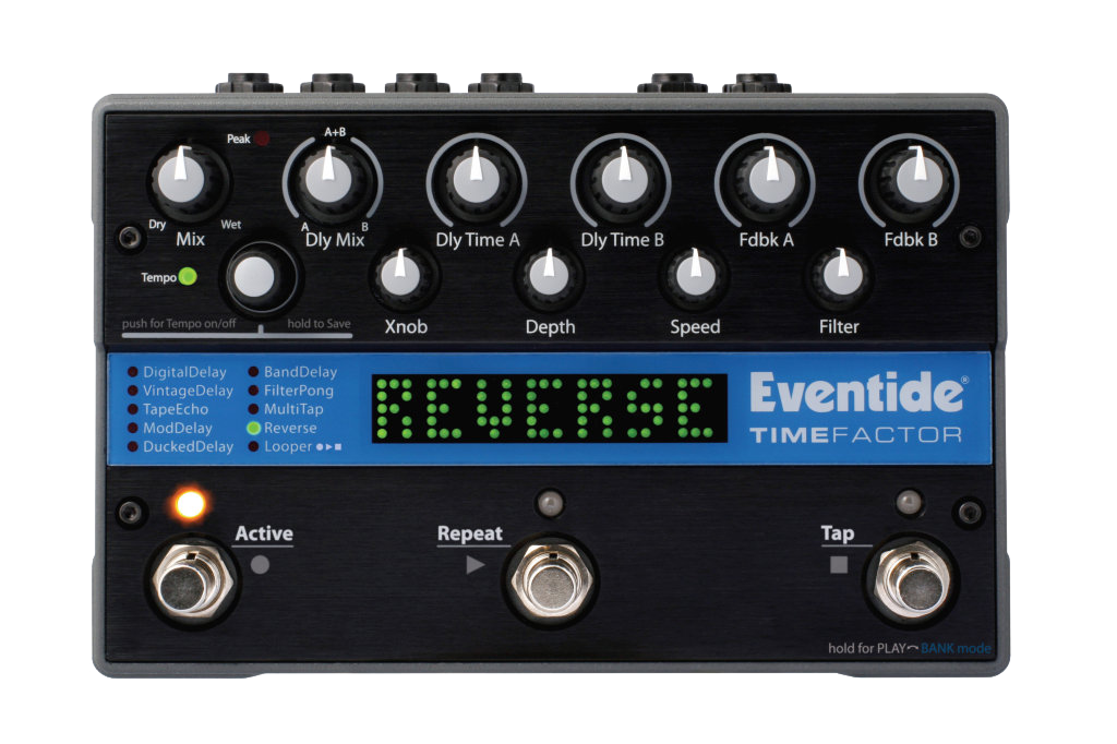 Eventide Timefactor Twin Delay Stompbox